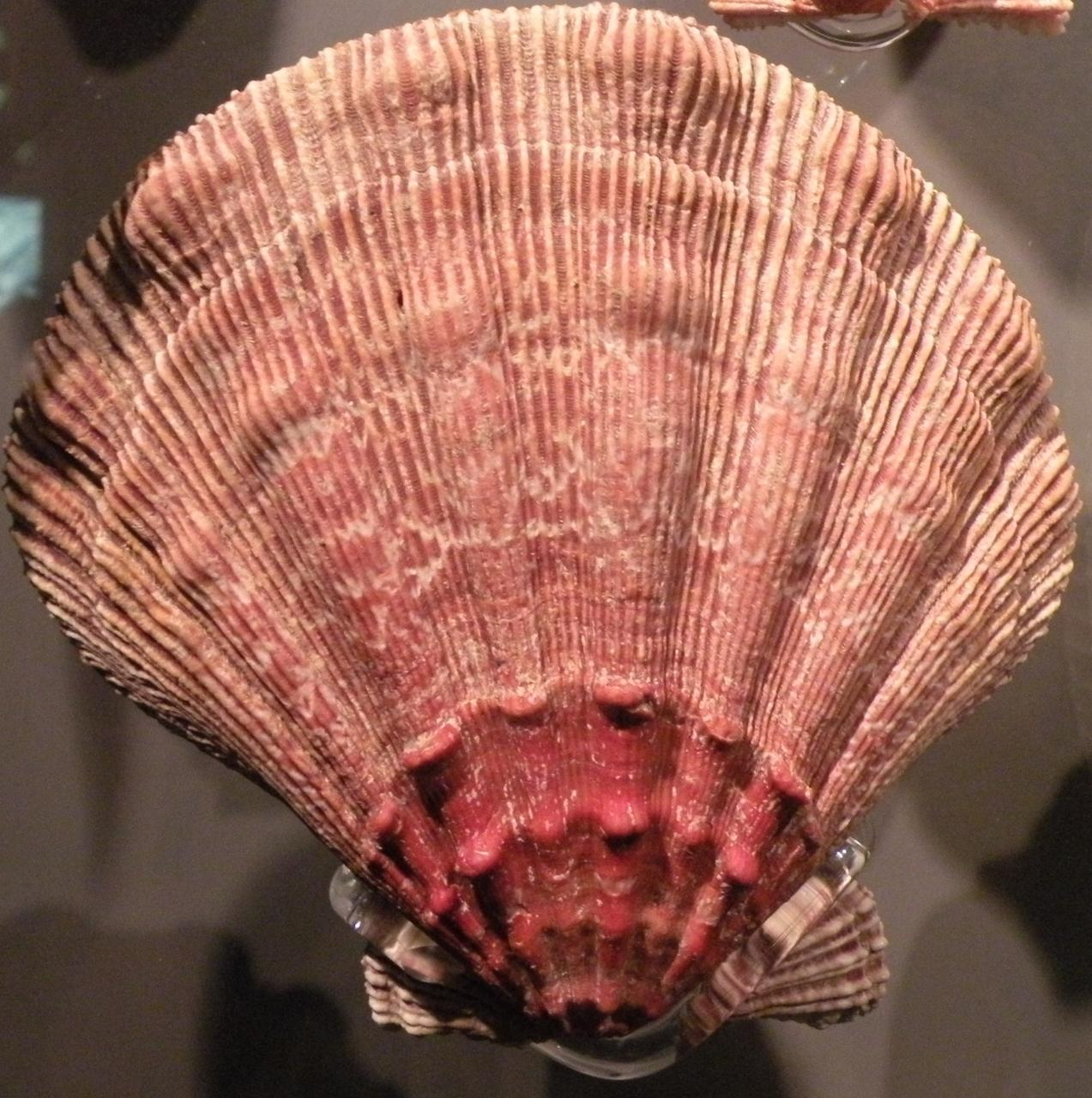 Nodipecten nodosa (Lion’s Paw) Stetson Bank, Gulf of Mexico Northwest Gulf Survey HMNS 2748 Wikipedia Loves Art at the Houston Museum of Natural Science This photo of item # [1] at the Houston Museum of Natural Science was contributed under the team name "Assignment_Houston_One" as part of the Wikipedia Loves Art project in February 2009. Houston Museum of Natural Science The original photograph on Flickr was taken by Stephaniedancer—please add a comment to the original Flickr page whenever a use has been made on Wikipedia or another project. Project galleries on Flickr: this institution, this team